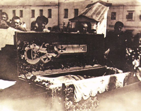 Opening of relics of st. German of Kazan